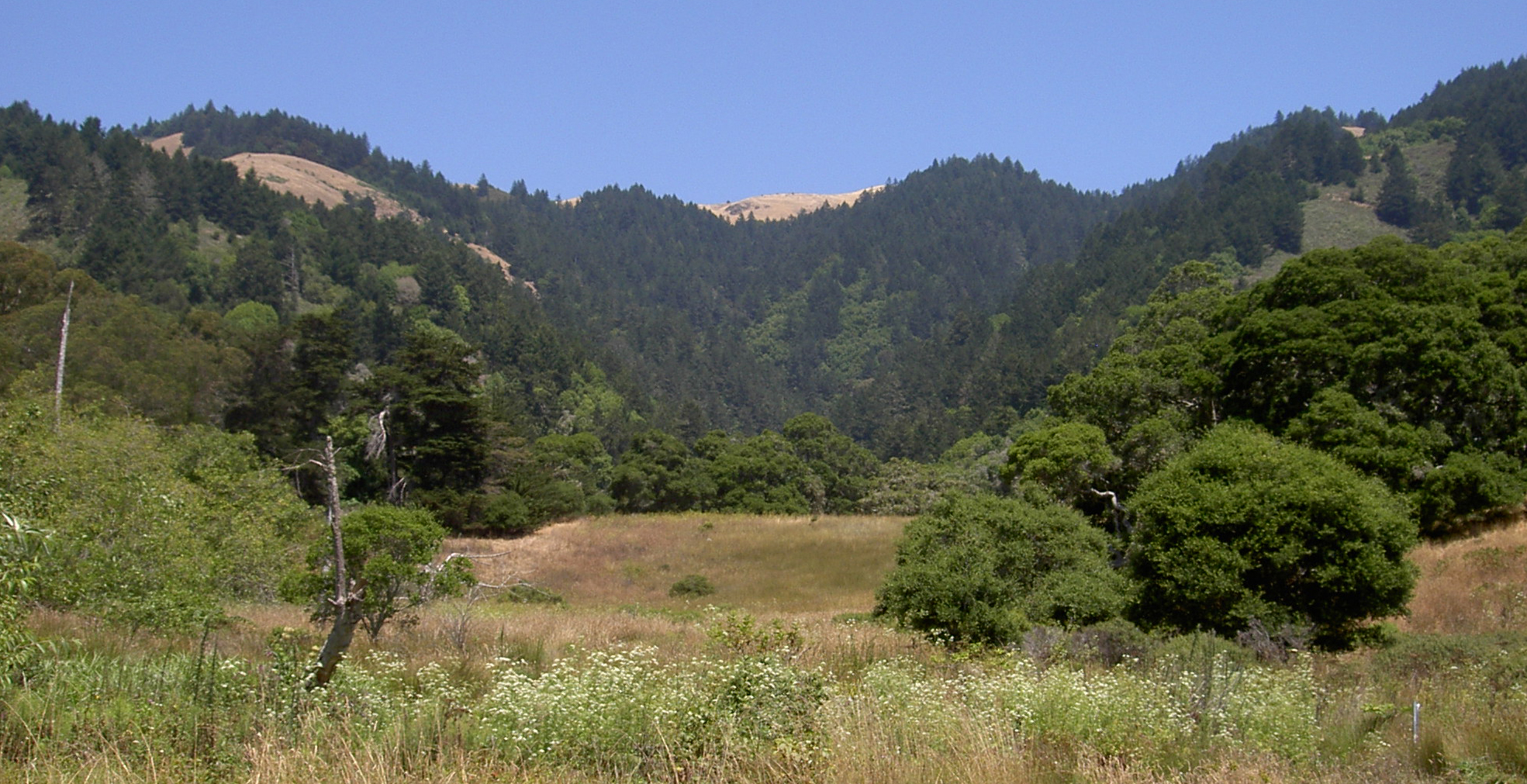 Stinson Gulch in west Marin County photographed from mile 13.45 of California State Route 1